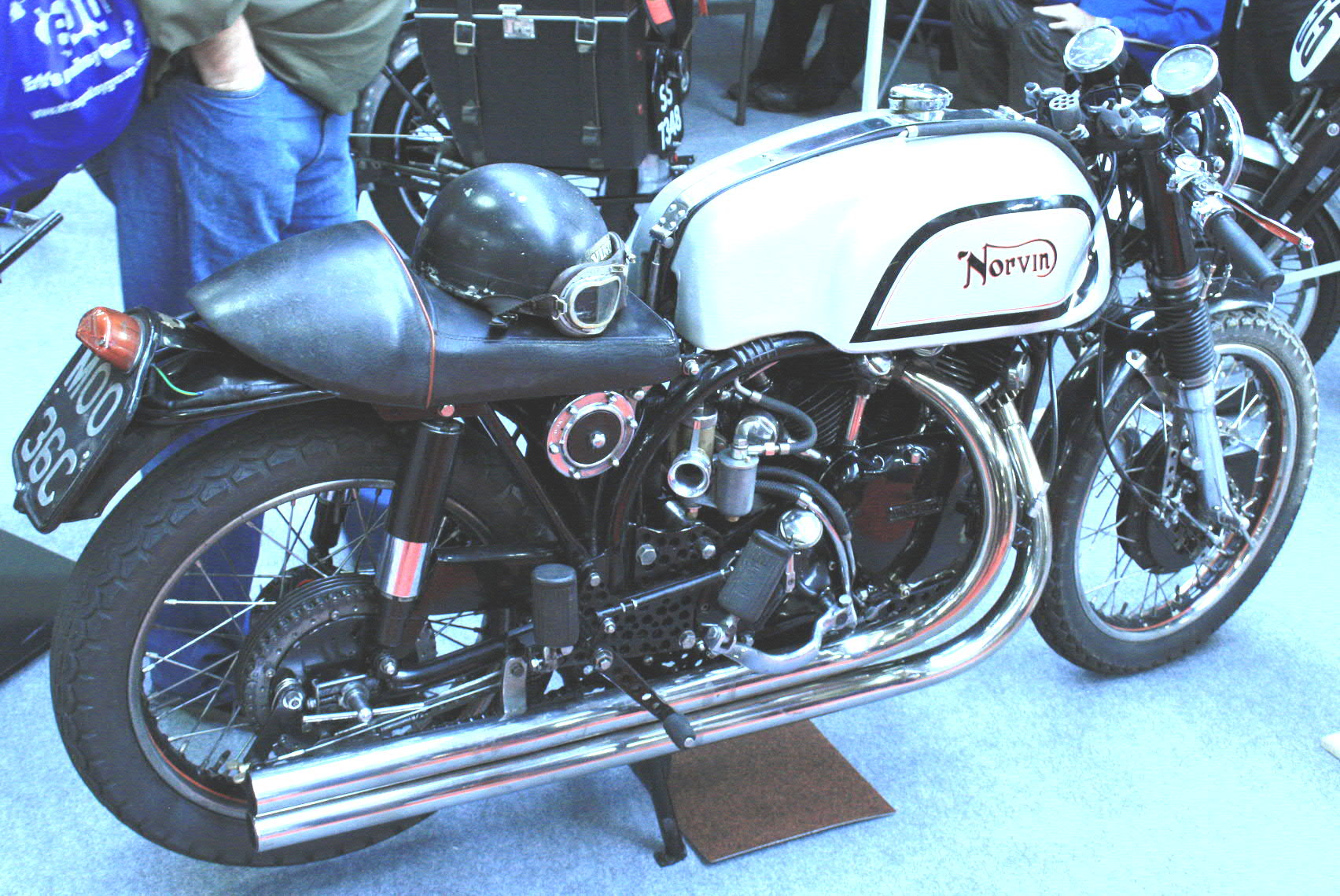 Traditional 1960s-style Norvin. Vincent 1000cc V twin engine housed in a Manx Norton frame, forks, swinging arm and wheels with a 1965 UK registration number plate. The rear hub has to be reversed to suit the Vincent final drive sprocket and chain on the timing side of the engine.